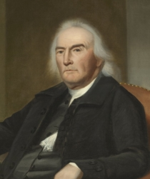 "Abraham Davenport (1715/16-1789), B.A. 1732, M.A. 1735,". Courtesy of the Yale University Art Gallery, Yale University, New Haven, Conn.